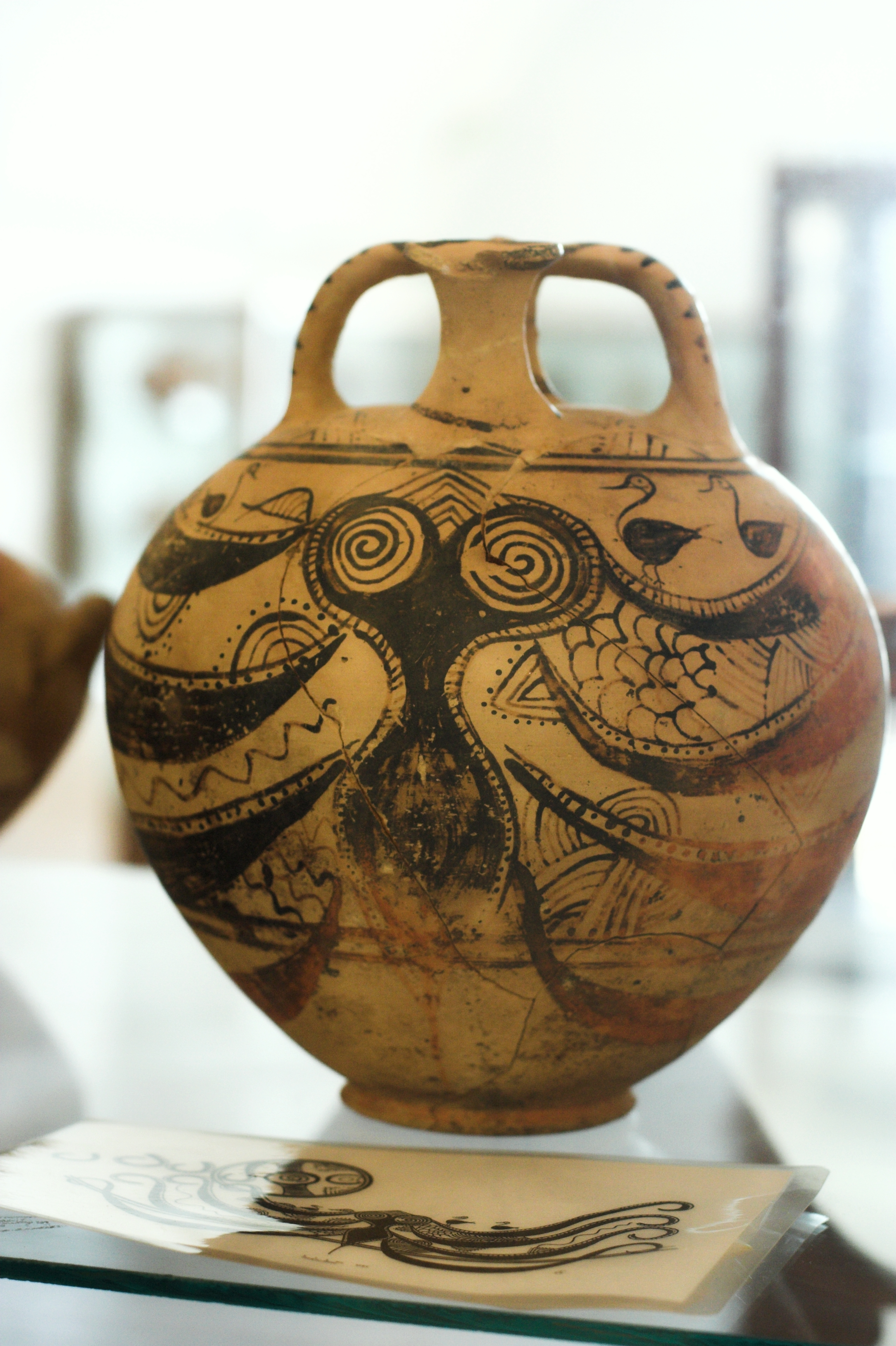 Late Mycenaean vessel with octopus. From the necropolis Kamini on Naxos, chamber tomb A. 12th century BC. Archaeological Museum of Naxos, No. 1727.